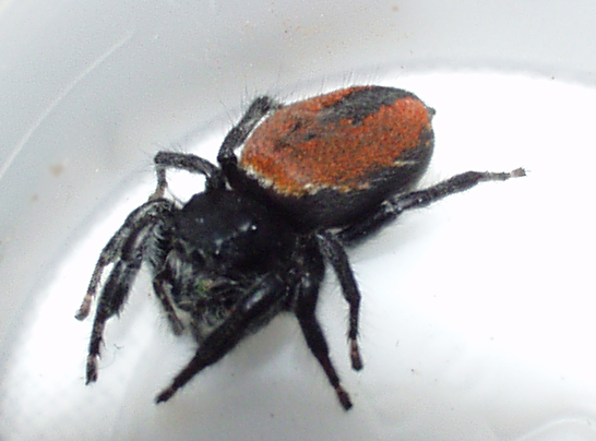 Phidippus johnsoni (?) 18 mm body length, female. These spiders are quite large for Salticidae (jumping spiders). Their red coloration and relatively slow speed to escape may make them attractive to children. Like other Salticidae they are capable of giving defensive bites that are about as painful as a bee sting. This particular spider was quite easy to handle and did not even make a threat display. Ordinarily, Salticidae will bite only upon being pinched or otherwise severely provoked. Photo January 2006 by Patrick Edwin Moran.